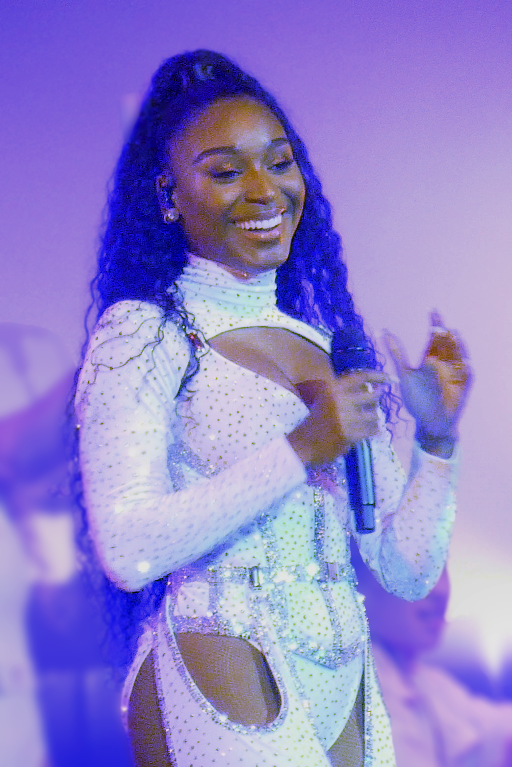 Singer Normani performing at the 2019 93.3 FLZ Jingle Ball on December 1, 2019